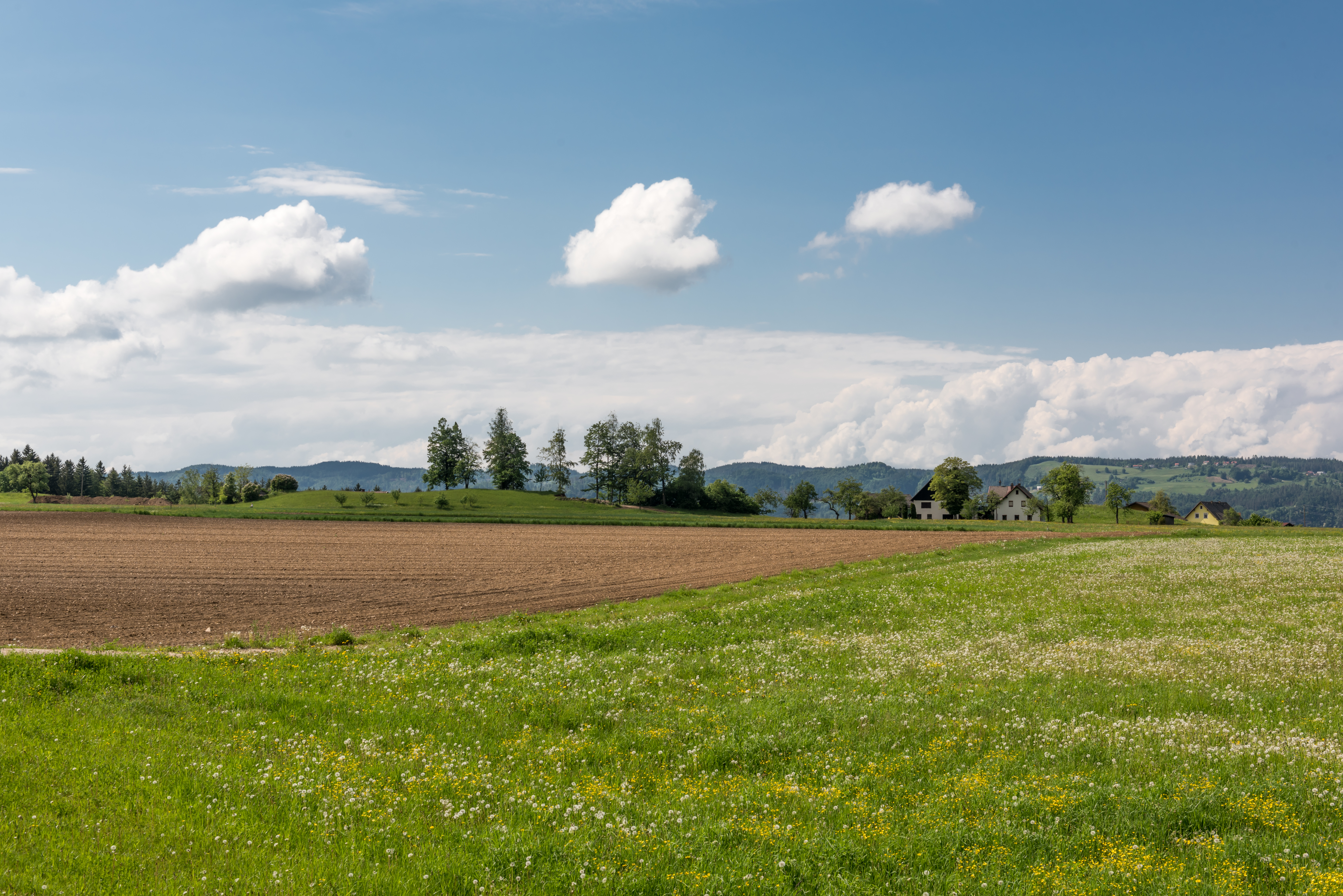 Landscape of Niederdörfl, municipality Sankt Margareten im Rosental, district Klagenfurt Land, Carinthia, Austria, EU